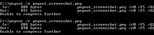 A Screenshot of Ken Silverman's PNGOUT optimizing :Image:Sopwith-screenshot.png on the Command line interface of Windows XP. See also File:Pngout -r -n1 Sopwith-screenshot.png — newer double run, with thinner font but not as much change